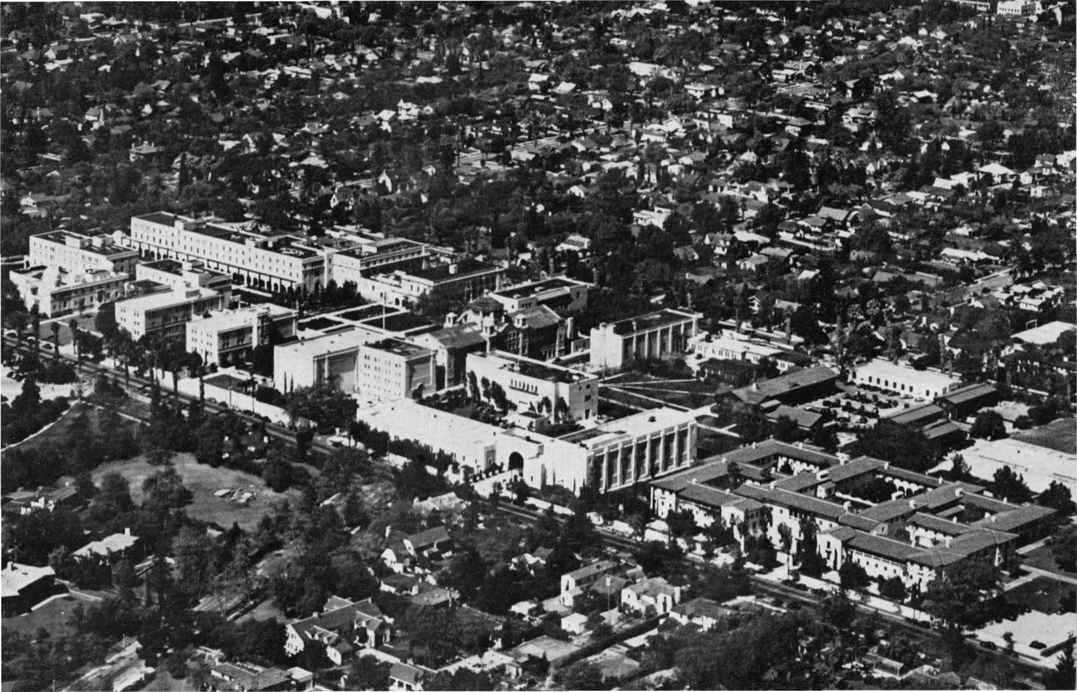 Aerial view of the California Institute of Technology in 1944